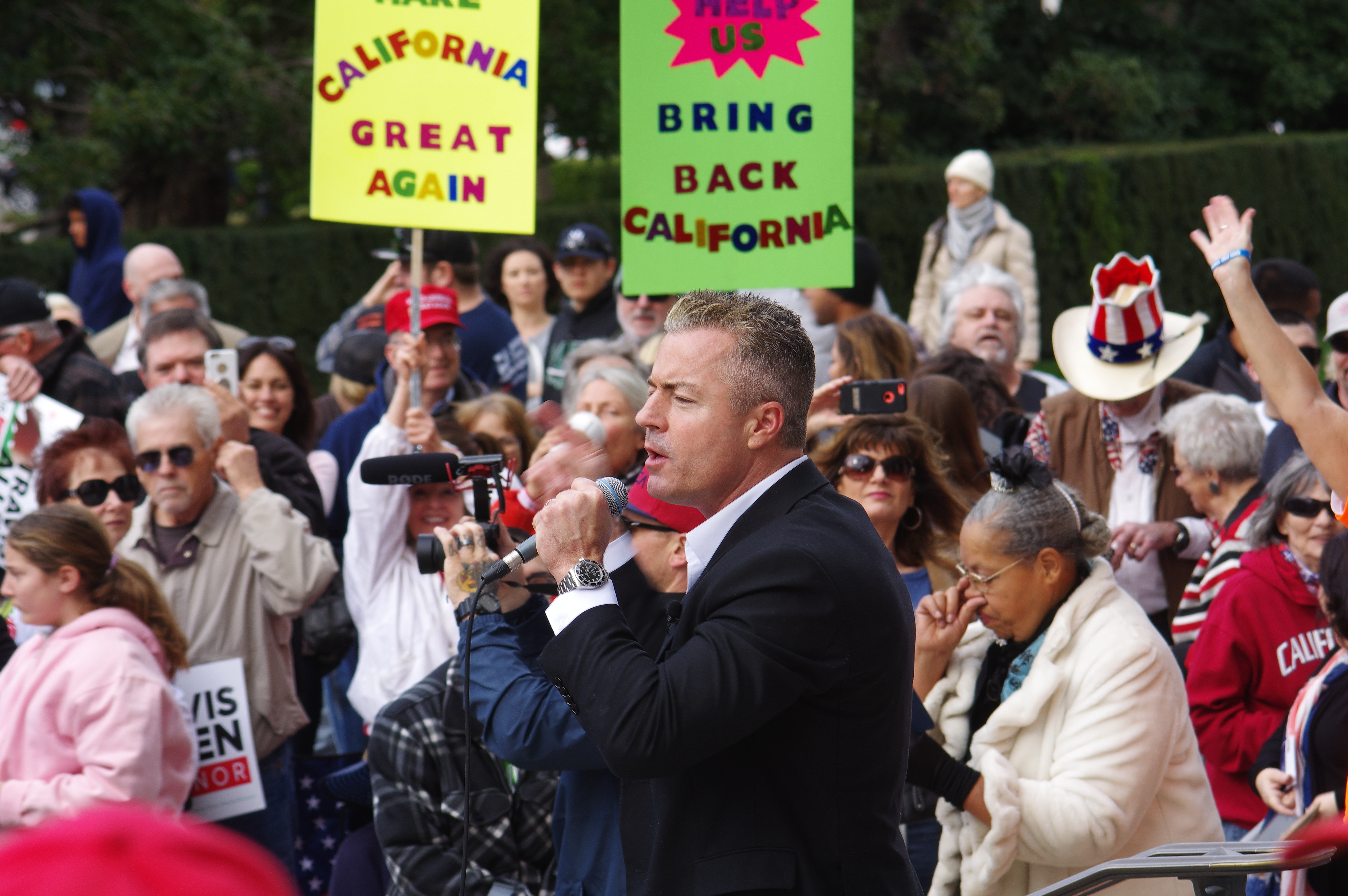 “Take Back California” rally Sacramento _____________________ Commenting is temporarily disabled, but your visits are v. much appreciated. Thank you ♥ _____________________